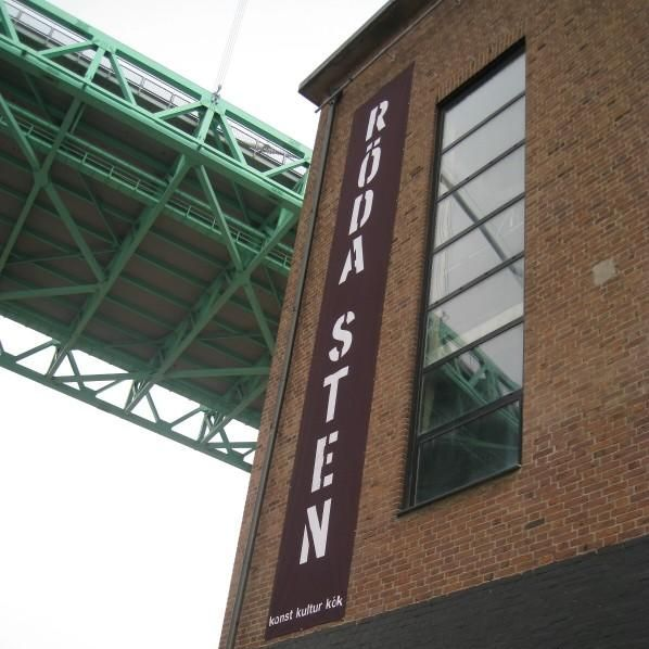 Below the Älvsborg Bridge in Klippan, Gothenburg, Sweden. Published July 25, 2009